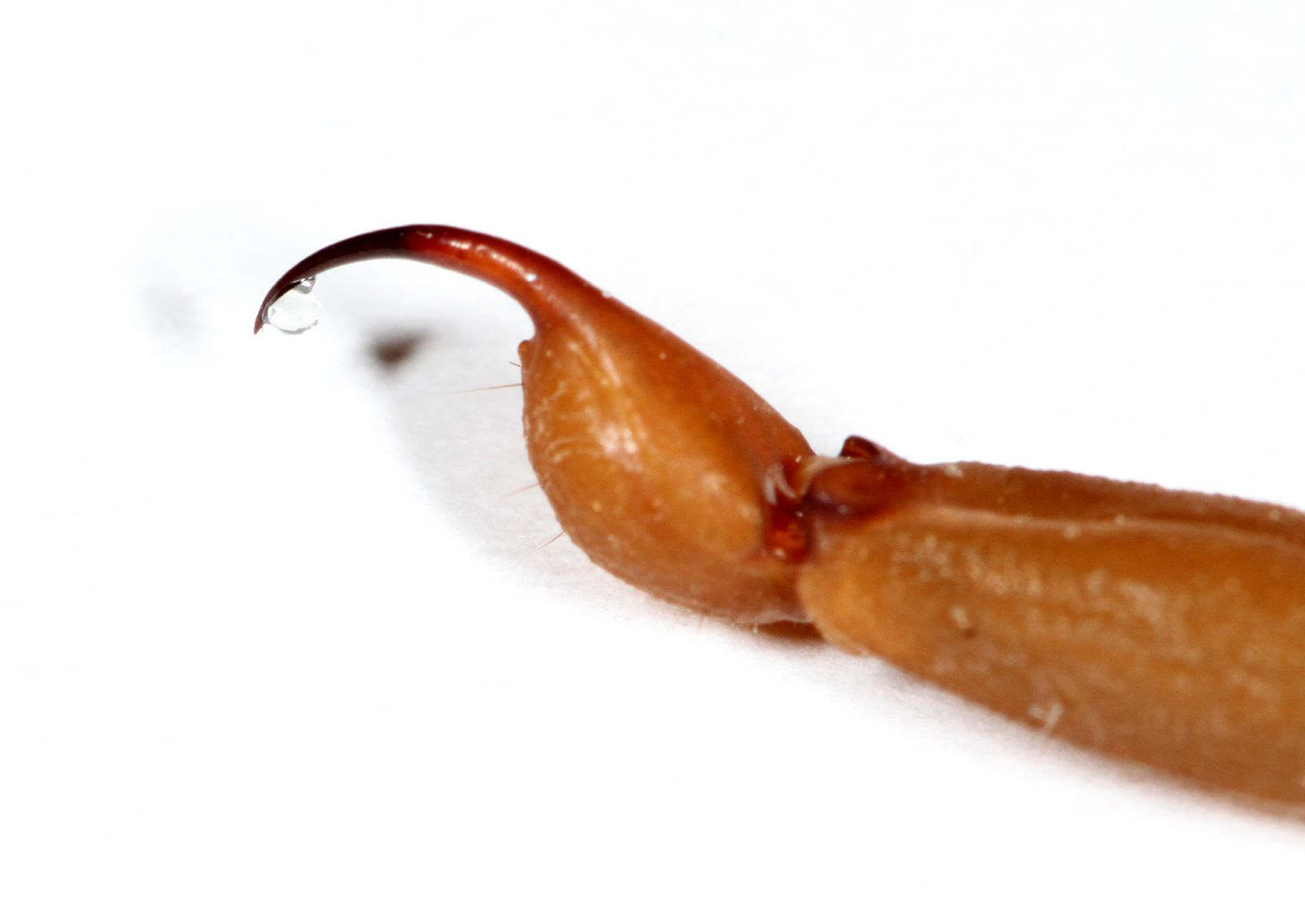 This one I caught outside.